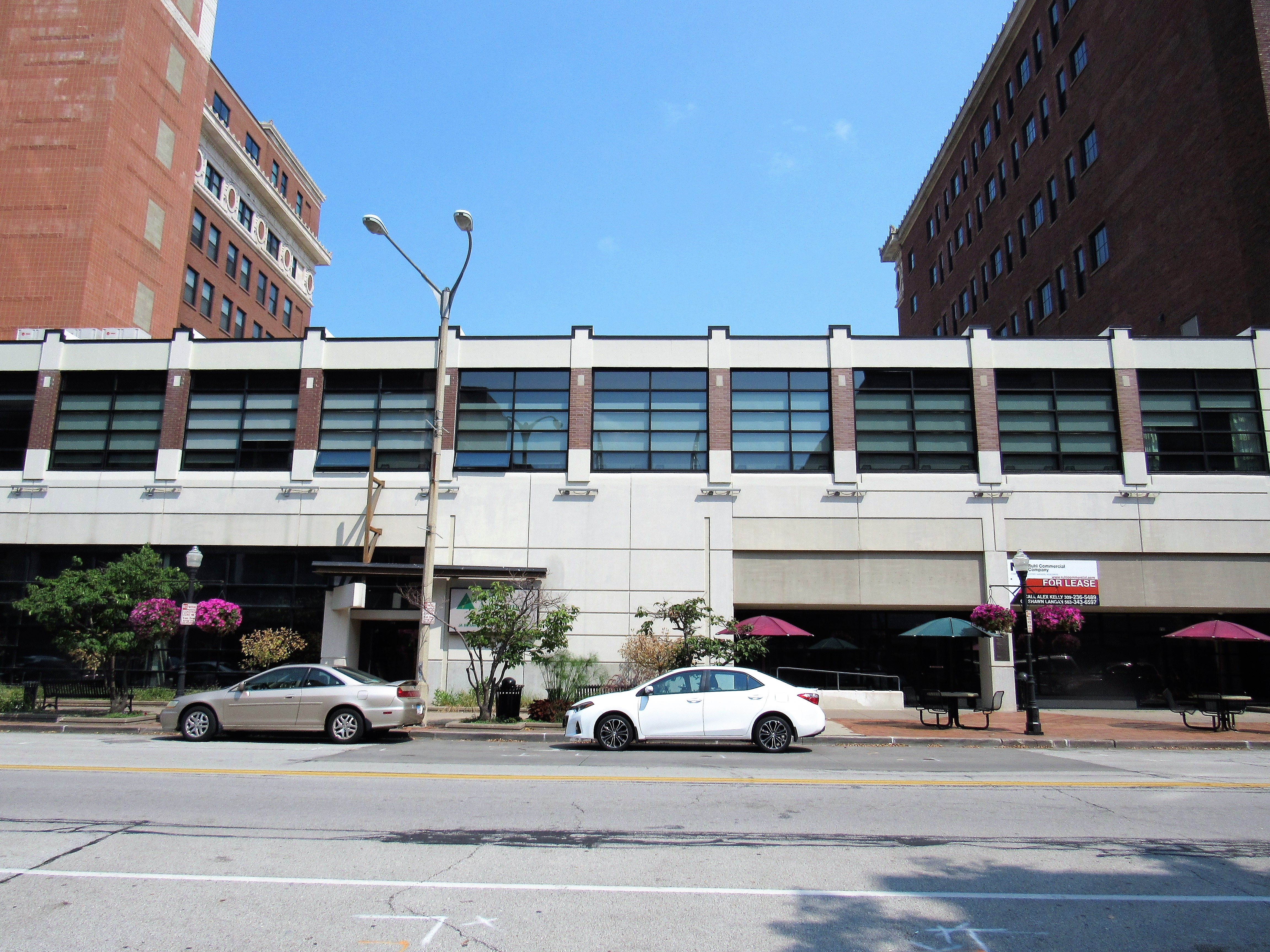 The Center Building of the Putnam-Parker Block in Davenport, Iowa.